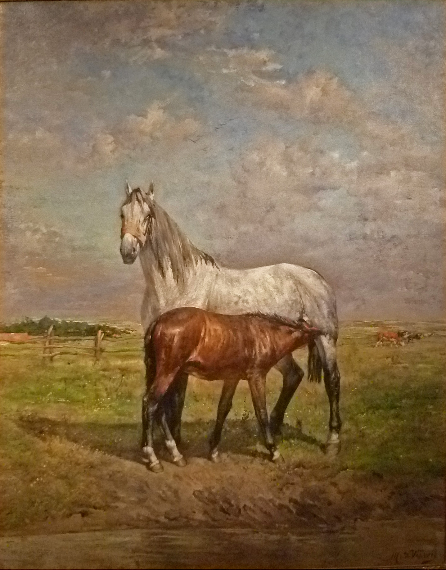 "Mare with foal" oil on canvas (130 x 100 cm) by the Belgian painter Alfred Verwee (1838-1895); gemeentelijk patrimonium Knokke-Heist (Belgium)